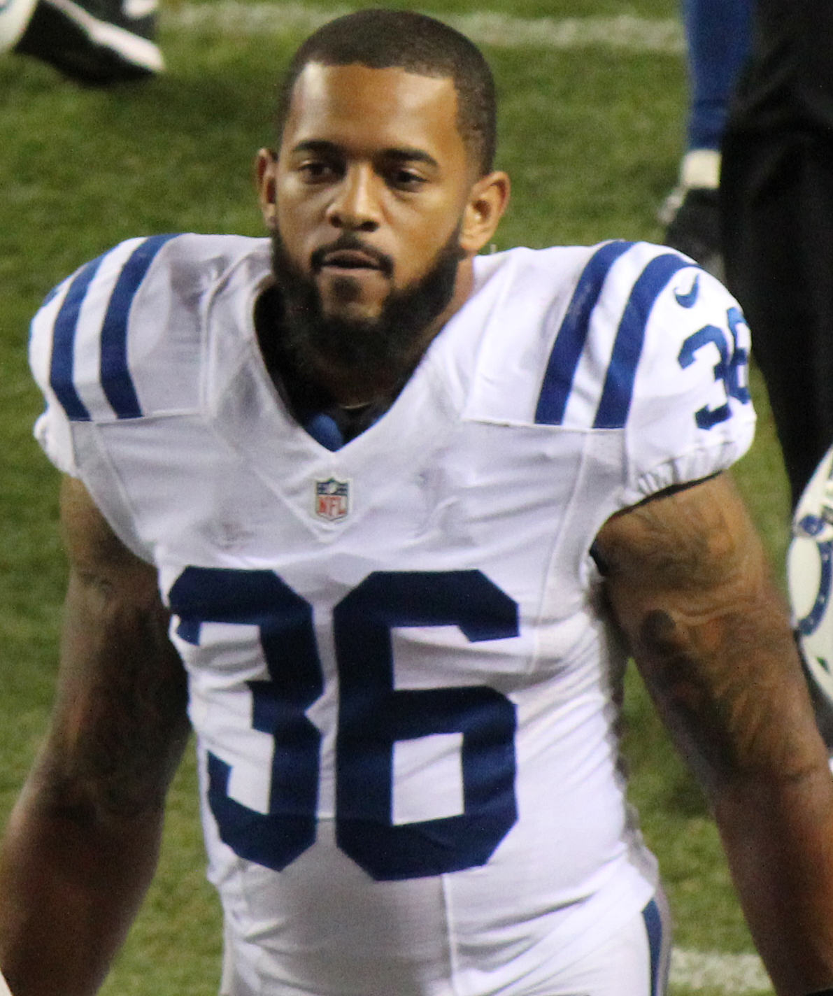 Dan Herron, a player on the National Football League.